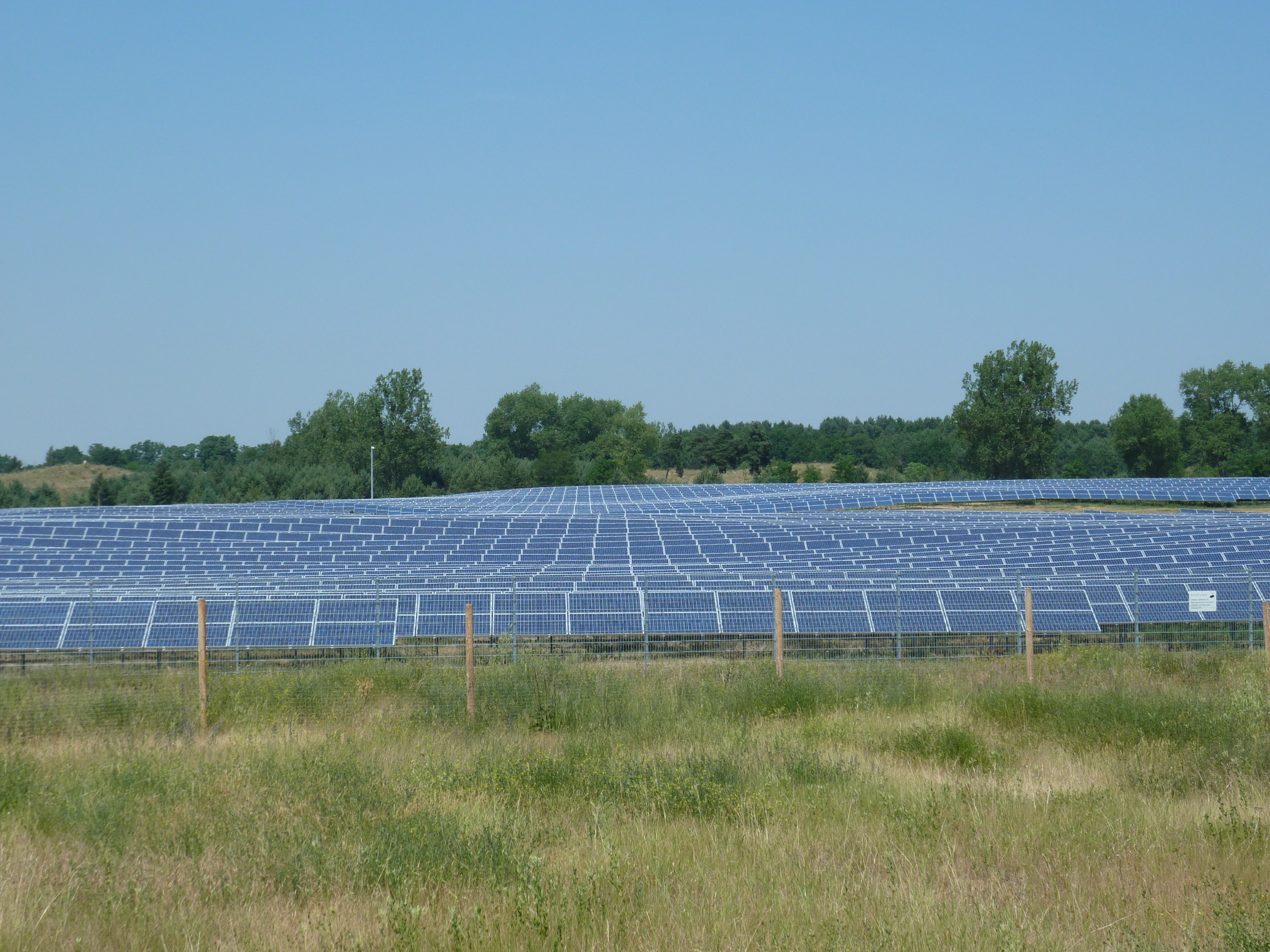 IBC Solar Photovoltaic system in Neustrelitz